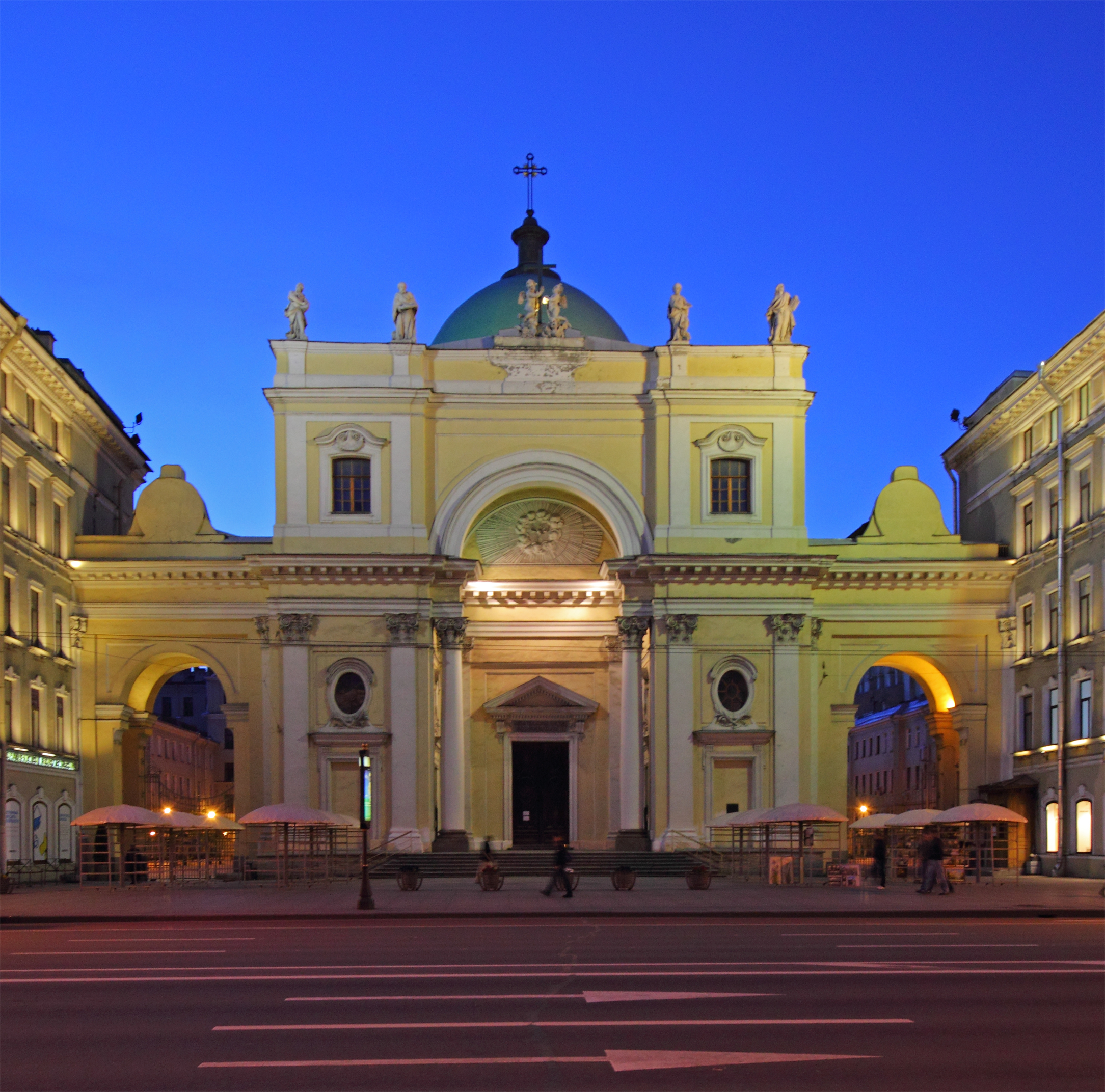 Saint Petersburg, Russia. Nevsky Avenue. Catholic Church of St. Catherine.